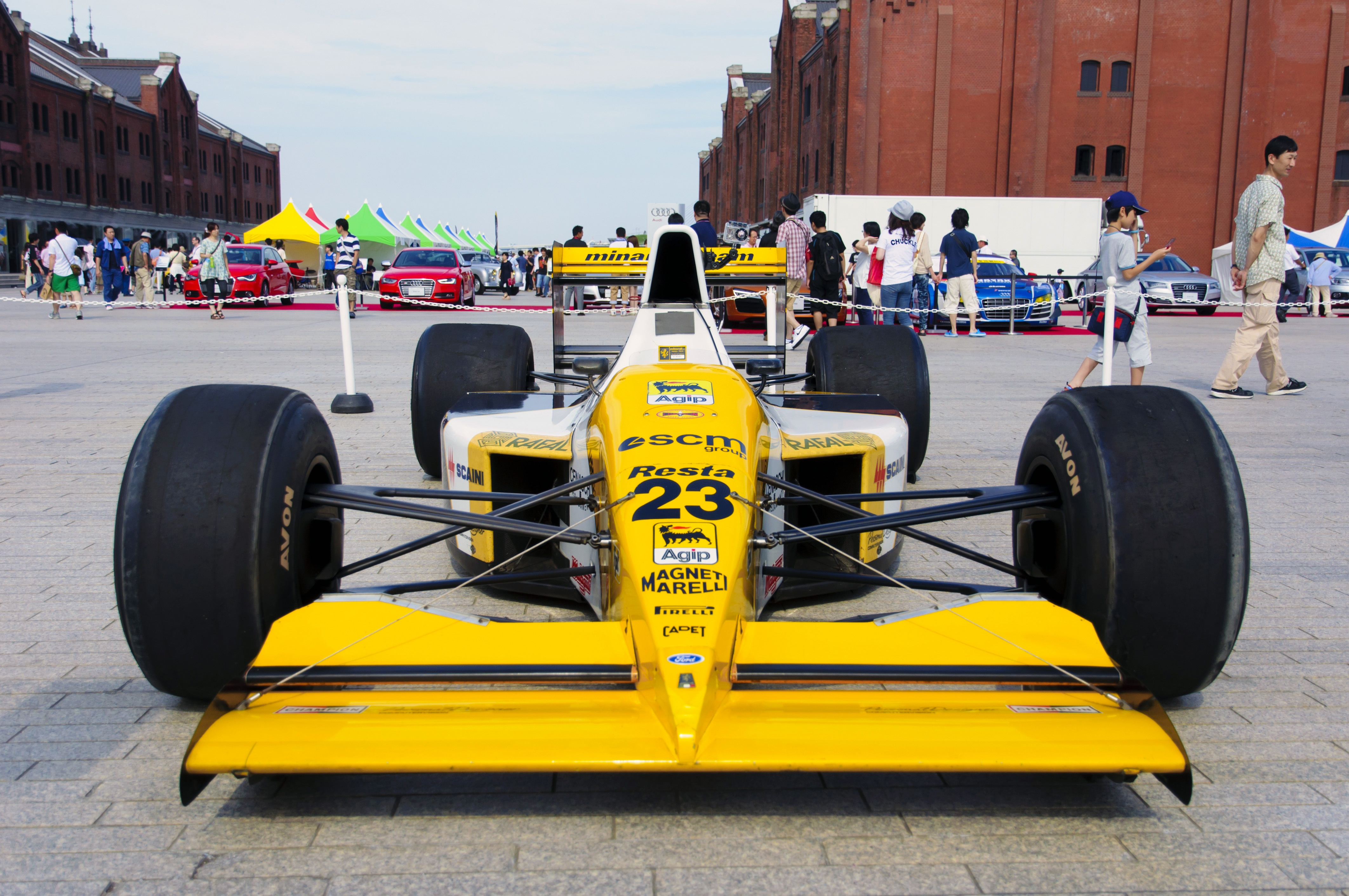 Minardi M190 [1990]